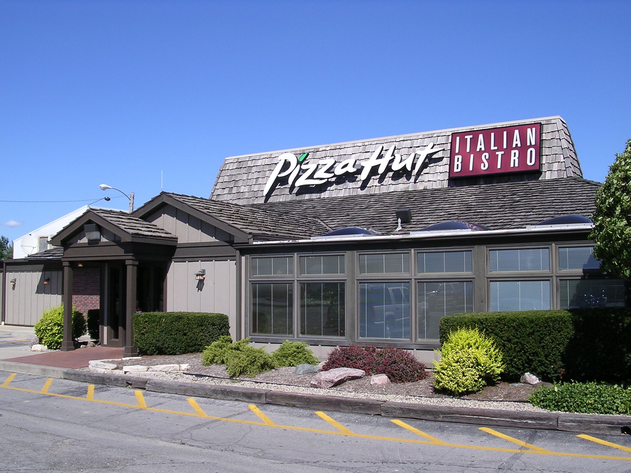 Pizza Hut Italian Bistro in Indianapolis